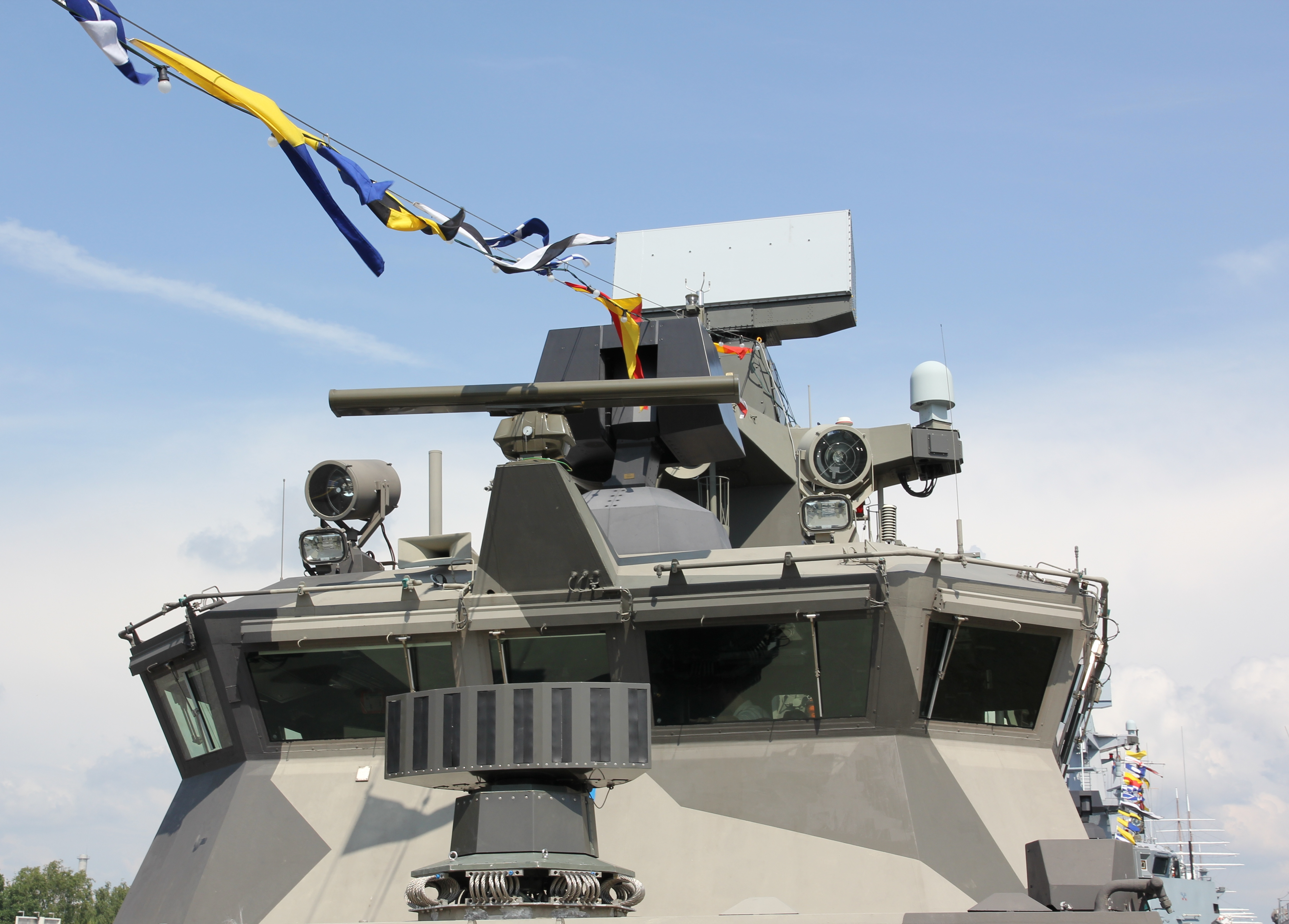 Finnish missile boat Hanko bridge, with the bow MASS decoy launcher, Ceros 200 fire control system and TRS-3D 16-ES radar. Photographed during Finnish Navy 2011 anniversary in Turku.